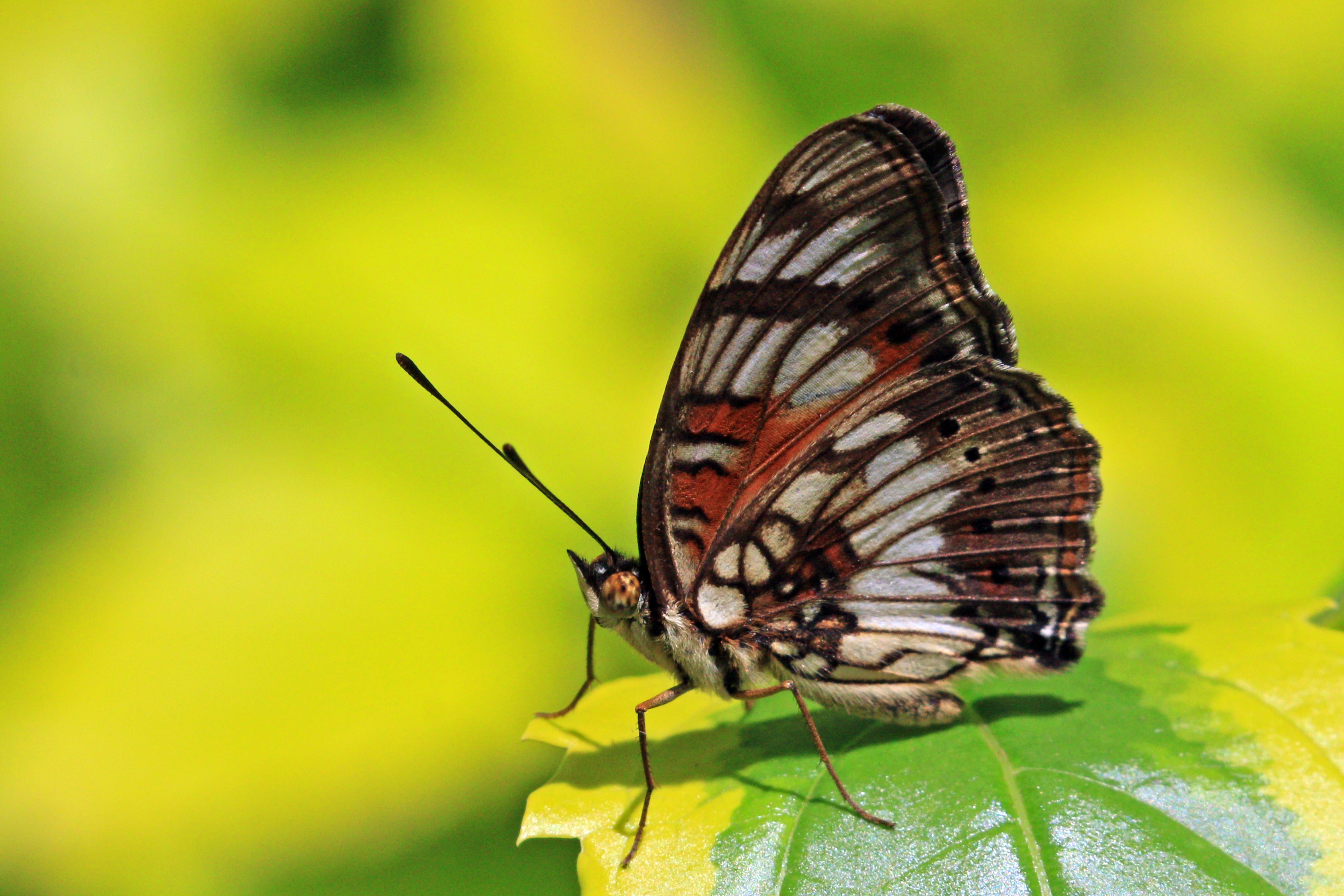 Little commodore (Junonia sophia infracta) underside dark form, Kakamega Forest, Kenya